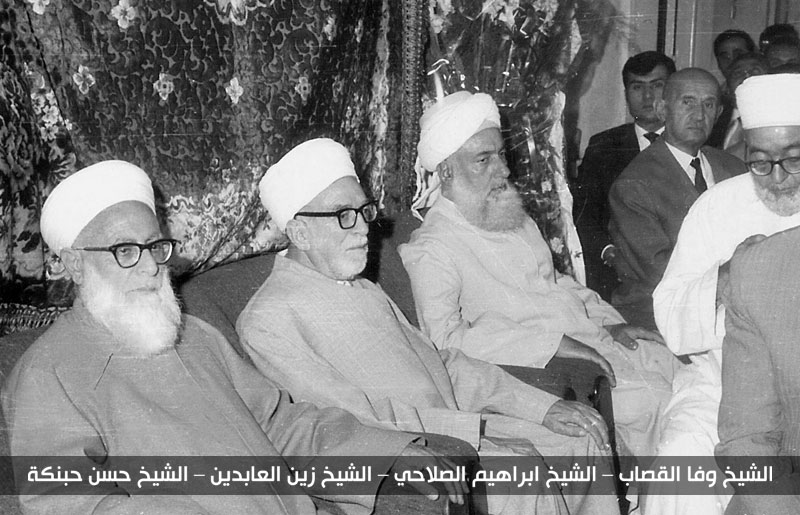 From right to left : Sheikh Waka Kassab, Sheikh Ibrahim Salahi, Sheikh Zin El Abidin and Sheokh Hasan Hanbaka